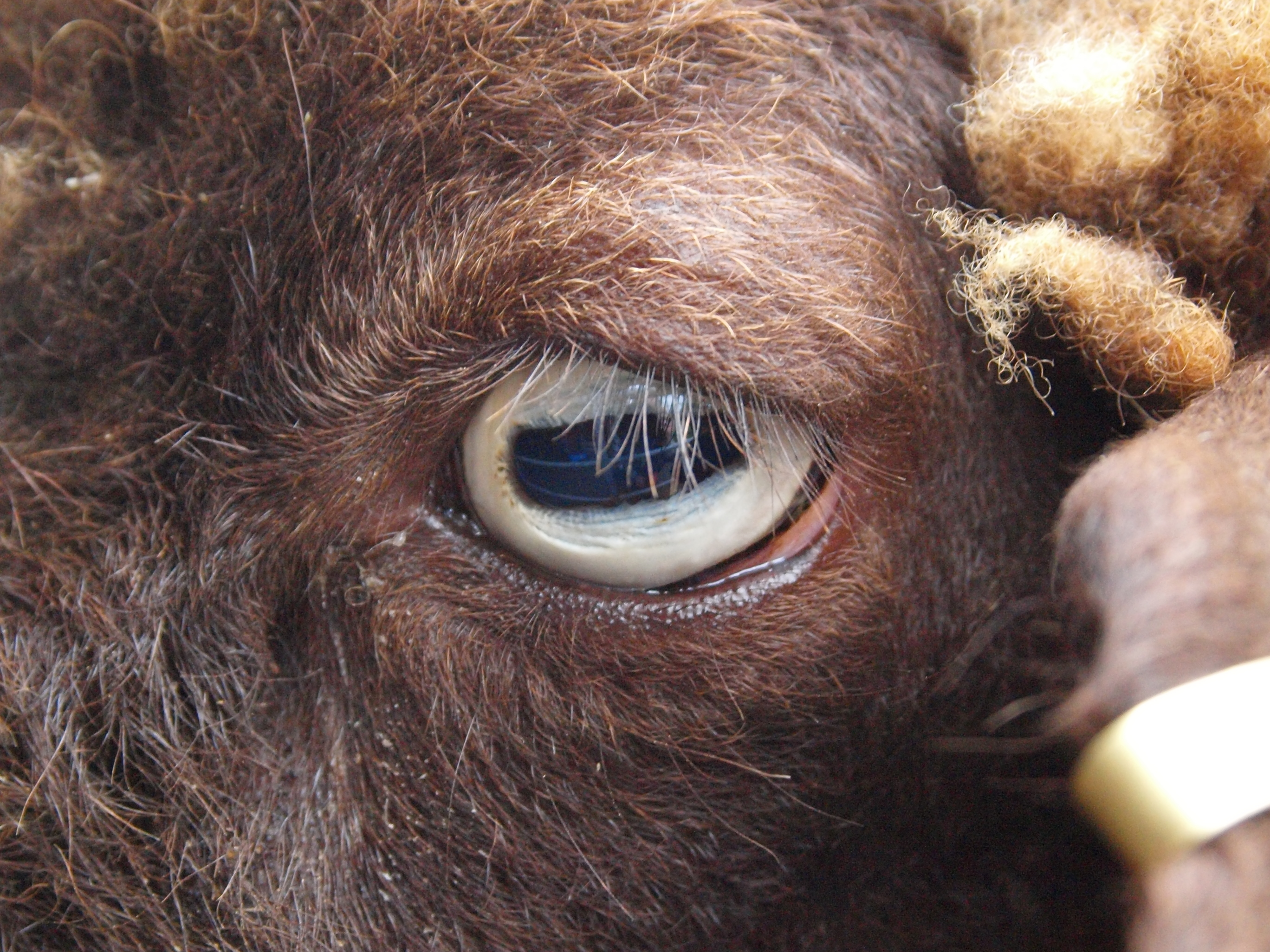 Left eye of a of a Roux du Valais sheep (Walliser Landschaf)